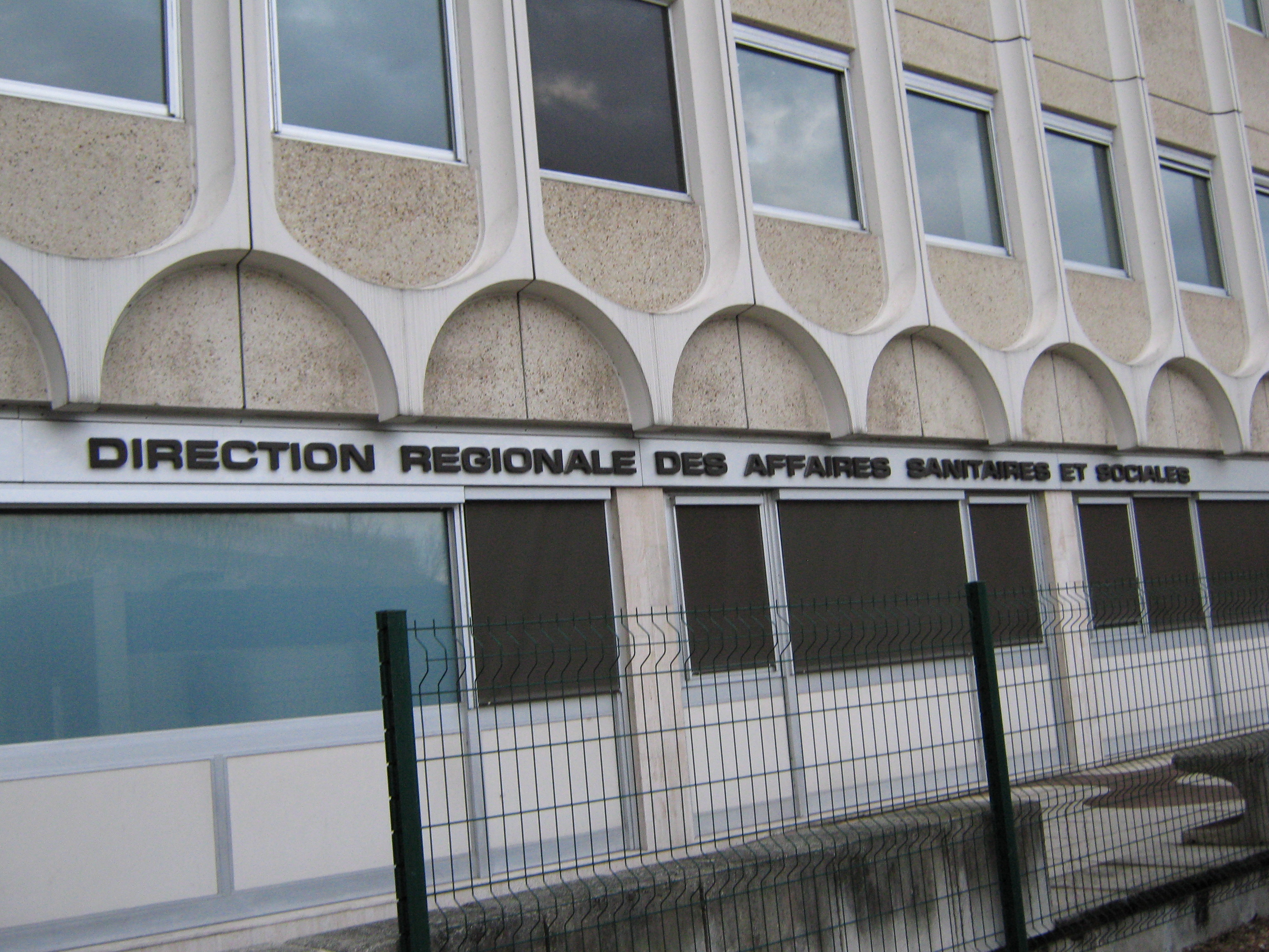 Building in Orléans, which was until 2008 the seat of the Direction régionale des affaires sanitaires et sociales (DRASS), a former regional State administration for public health and social care